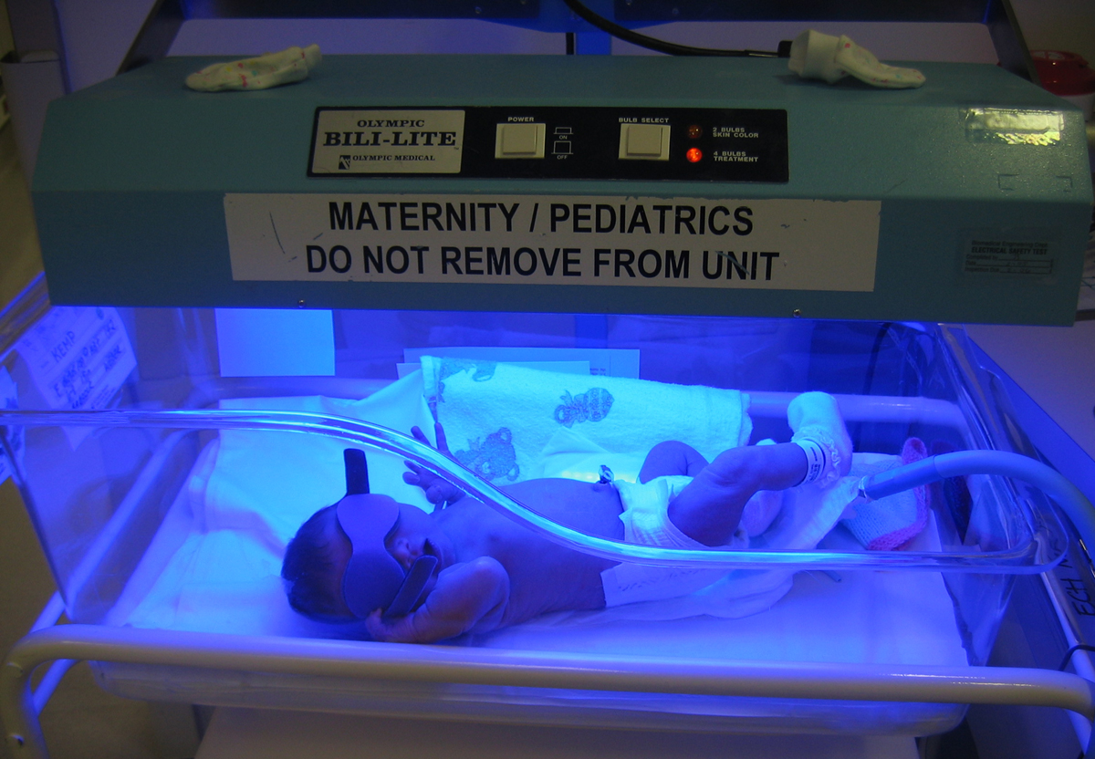 Bili light with newborn Photo by Jeremy Kemp, 4/10/05